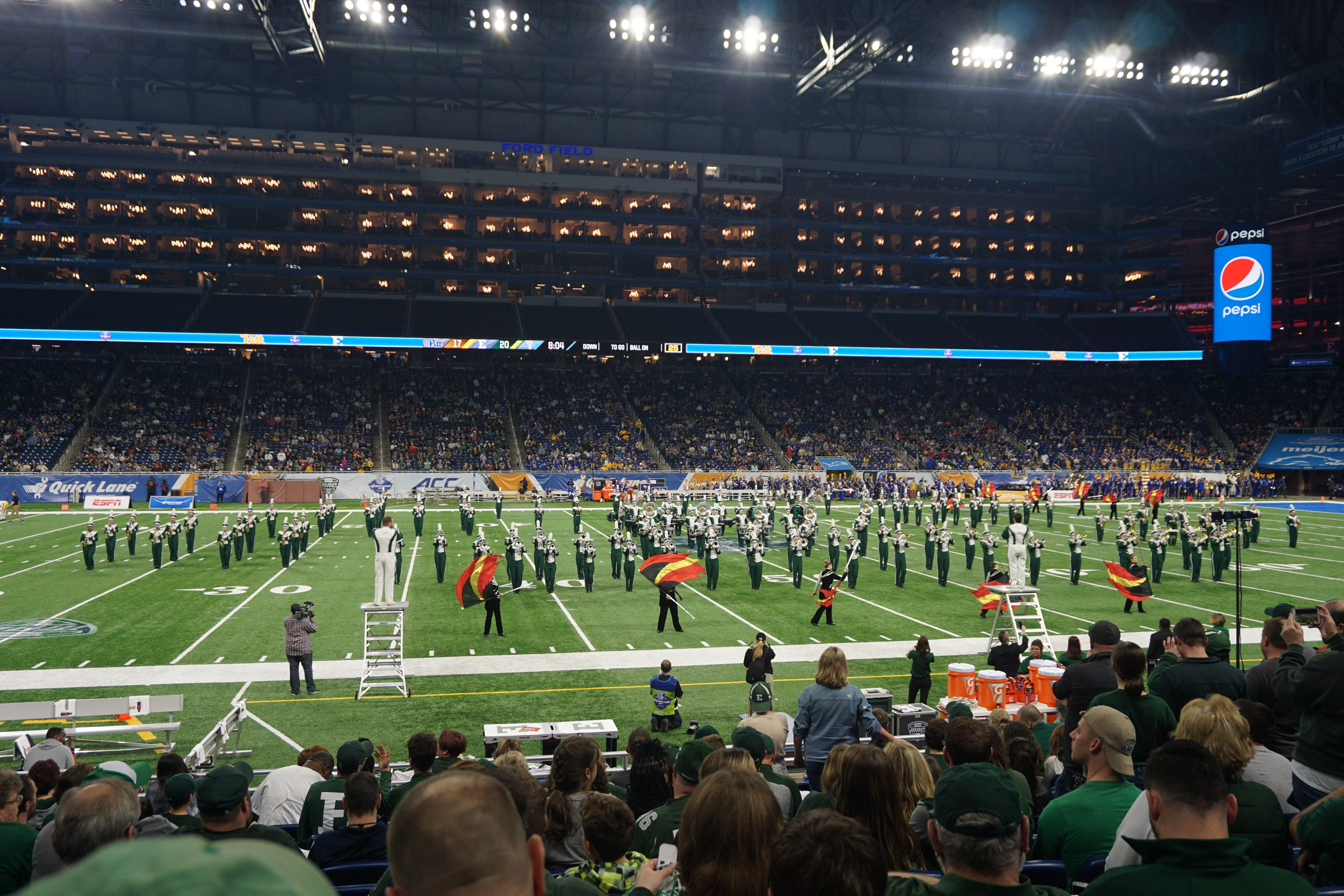 The Eastern Michigan University Marching Band performing during halftime of the 2019 Quick Lane Bowl (Pittsburgh Panthers vs. Eastern Michigan Eagles) at Ford Field in Detroit, Michigan (United States). Pittsburgh won 34–30.